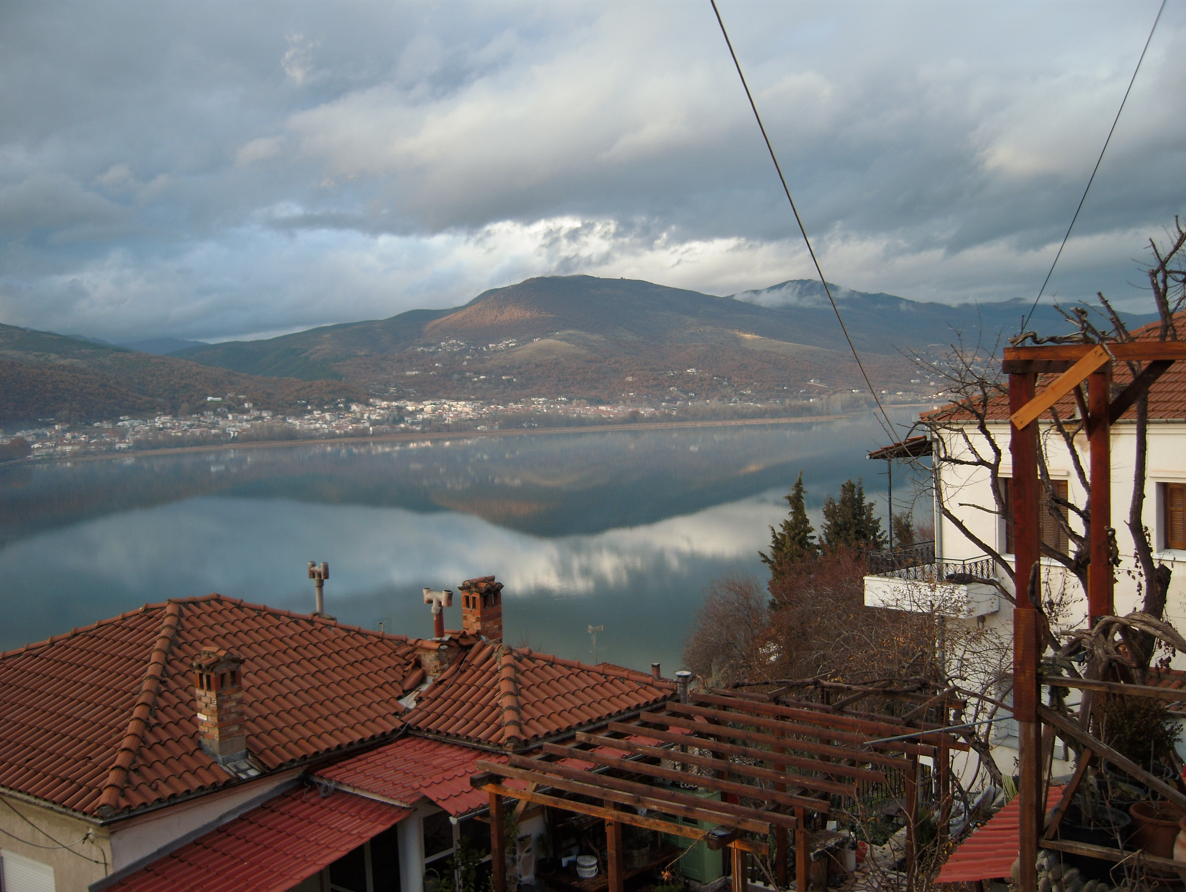 Views of Kostur / Kastoria